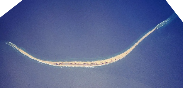 Satellite image of Sable Island (Canada). STS059-216-079 Sable Island, Nova Scotia, Canada April 1994 Sable Island is a low sandy island approximately 25 miles (40 km) long and 1 mile (1.5 km) wide in the Atlantic Ocean. Located 115 miles (180 km) southeast of Cape Canso, Nova Scotia, the island is the exposed part of a sand shoal that extends northeast/southwest for more than 100 miles (160 km). Sable Island, known as the “graveyard of the Atlantic Ocean,” has been a major hazard to navigation. The island is also noted as a breeding ground for seals, which are protected by the Canadian government. The island helps to mark the western edge of the northeasterly flowing warm waters of the Gulf Stream.